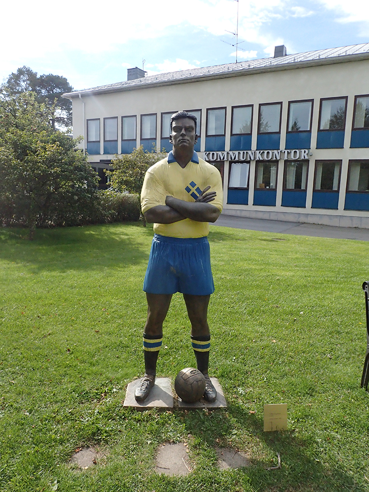 Statue of Gunnar Nordahl outside the old Municipality house of Hörnefors, created in 2000 by Urban Engström.